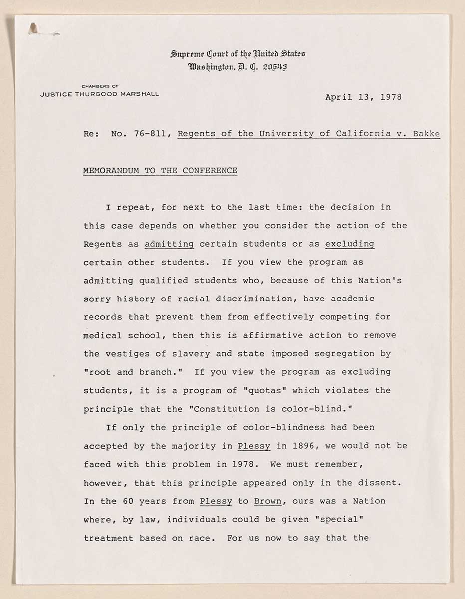 The Bakke case sparked fierce debate among the justices with very little consensus. The court submitted six separate opinions. Justice Thurgood Marshall argued forcefully for affirmative action, stating "I do not believe that anyone can truly look into America's past and still find a remedy for that past impermissible." The seeds of his opinion are evident in his notes and his Memorandum to the Supreme Court Conference displayed here.